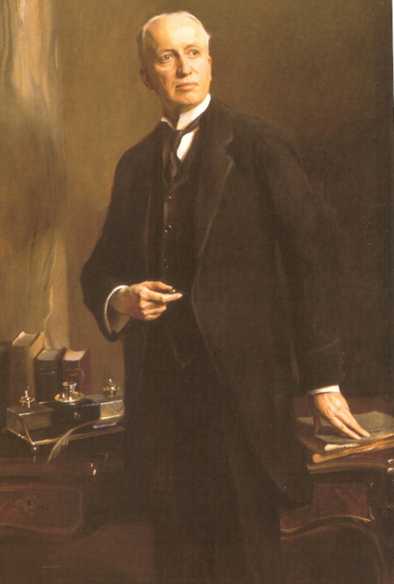 Baron Bruno Schroder, banker circa 1908